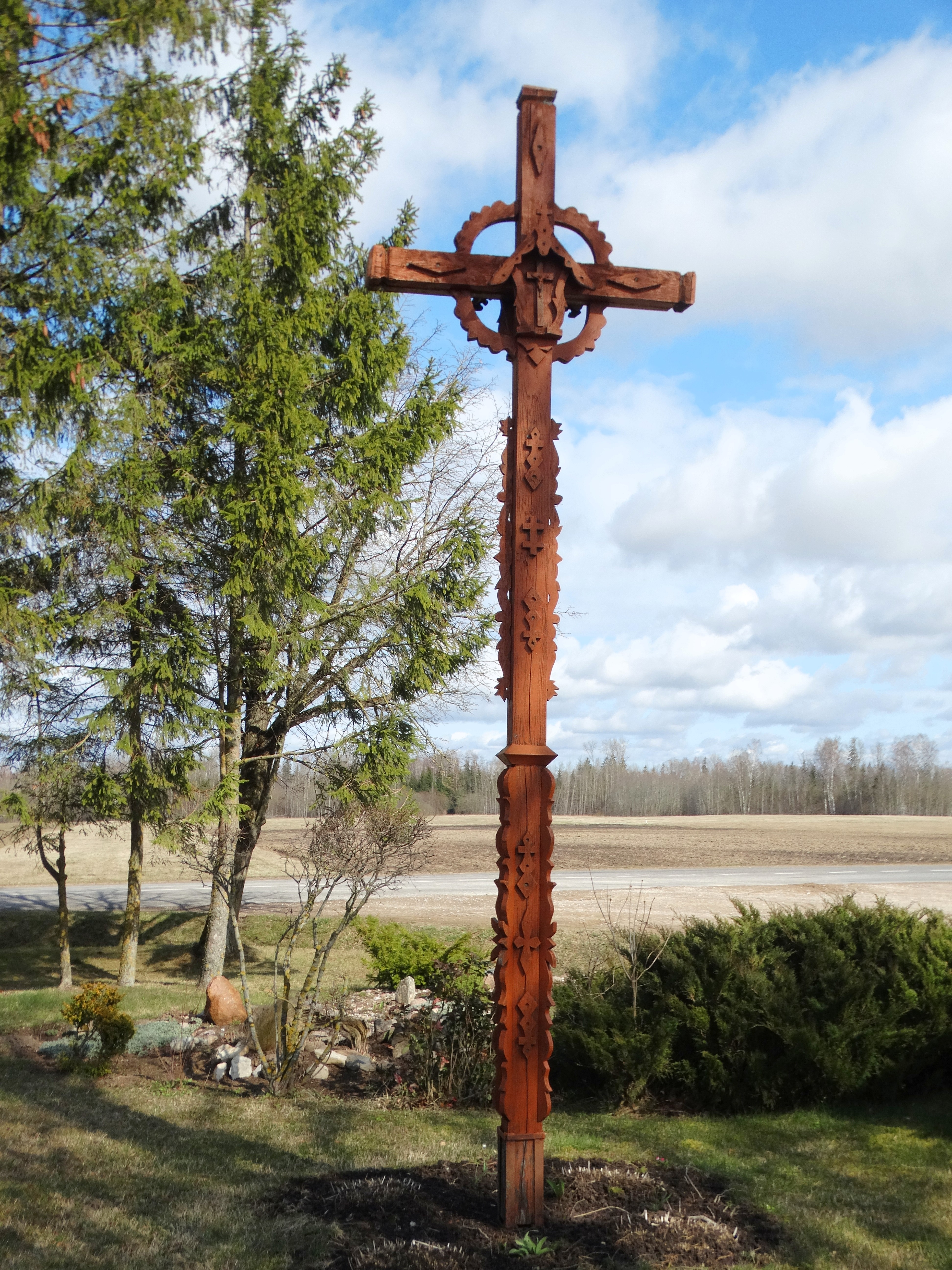 Kalveliai, Anykščiai District. Lithuania